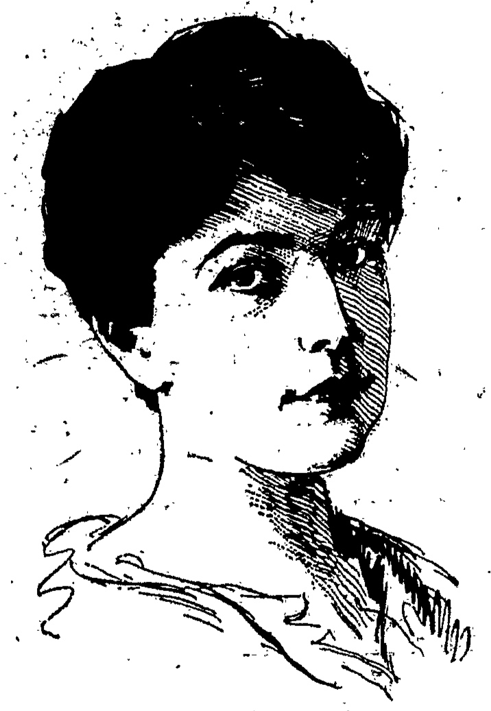 Illustration of author Isabel Ostrander